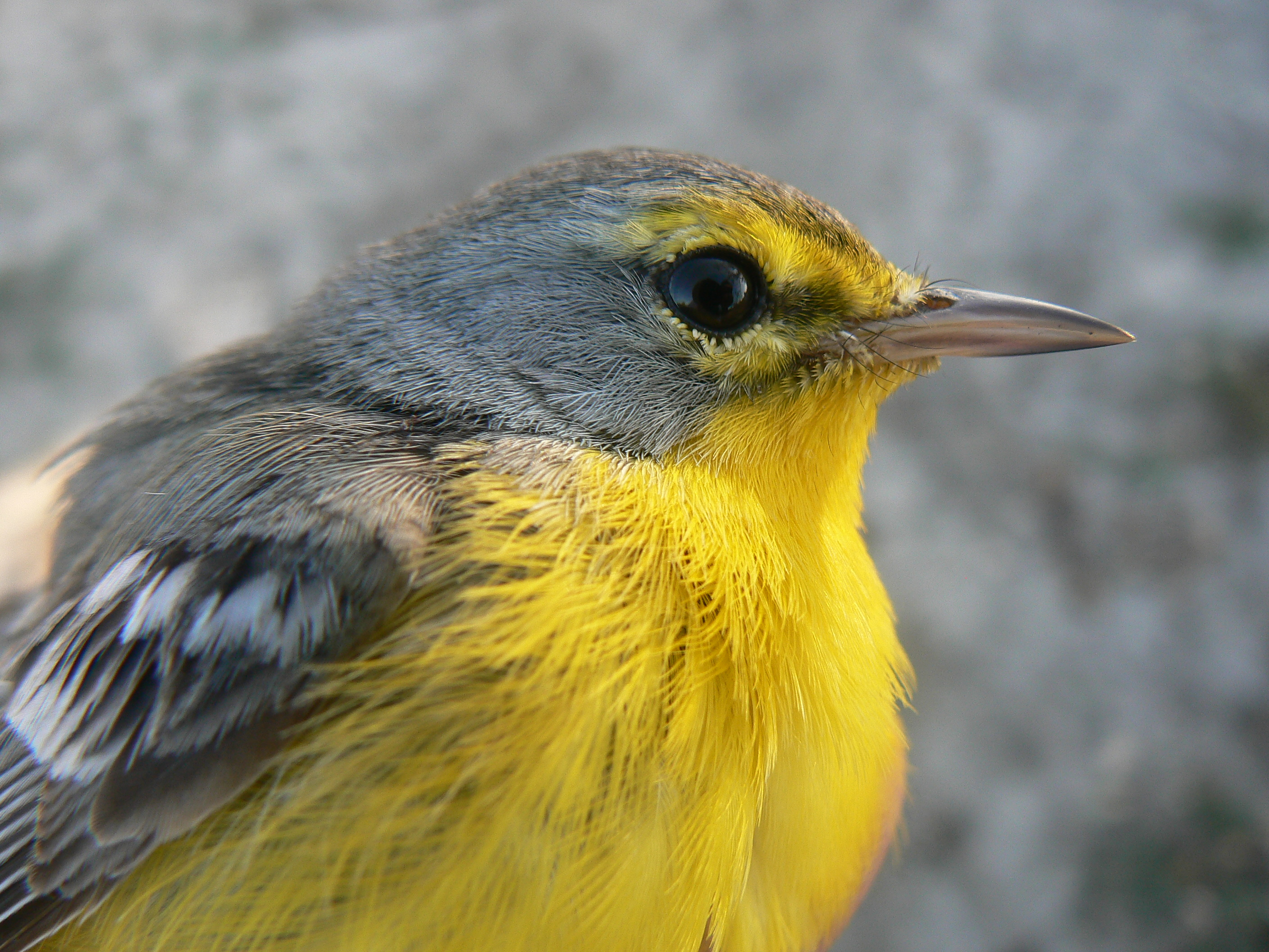 Setophaga subita